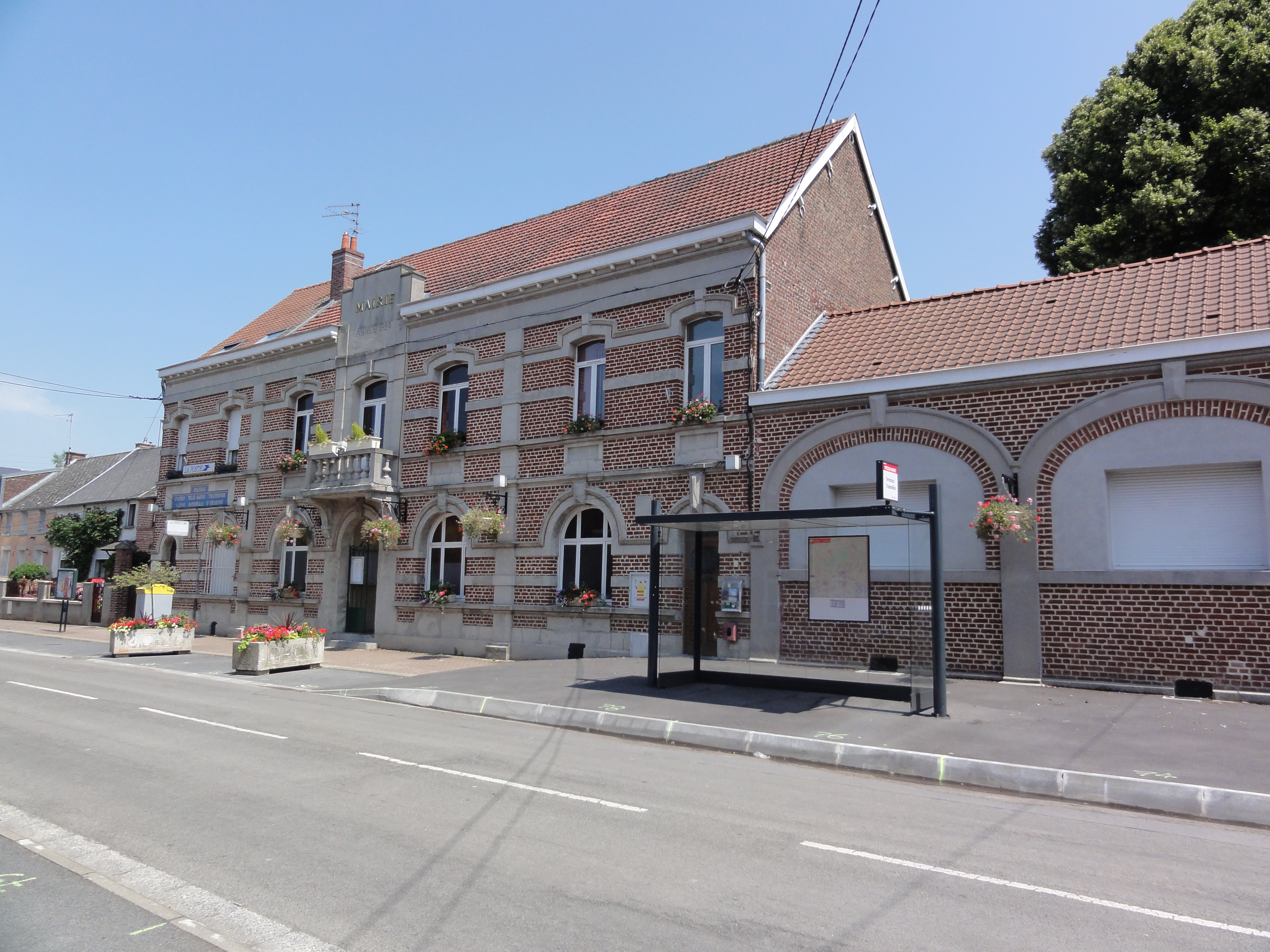 Préseau (Nord, Fr)mairie, Poste, abri-bus